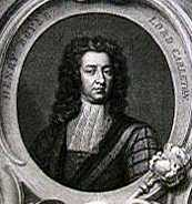 Henry Boyle, 1st Baron Carleton PC (July 12, 1669 – March 31, 1725) was an English politician of the early eighteenth century